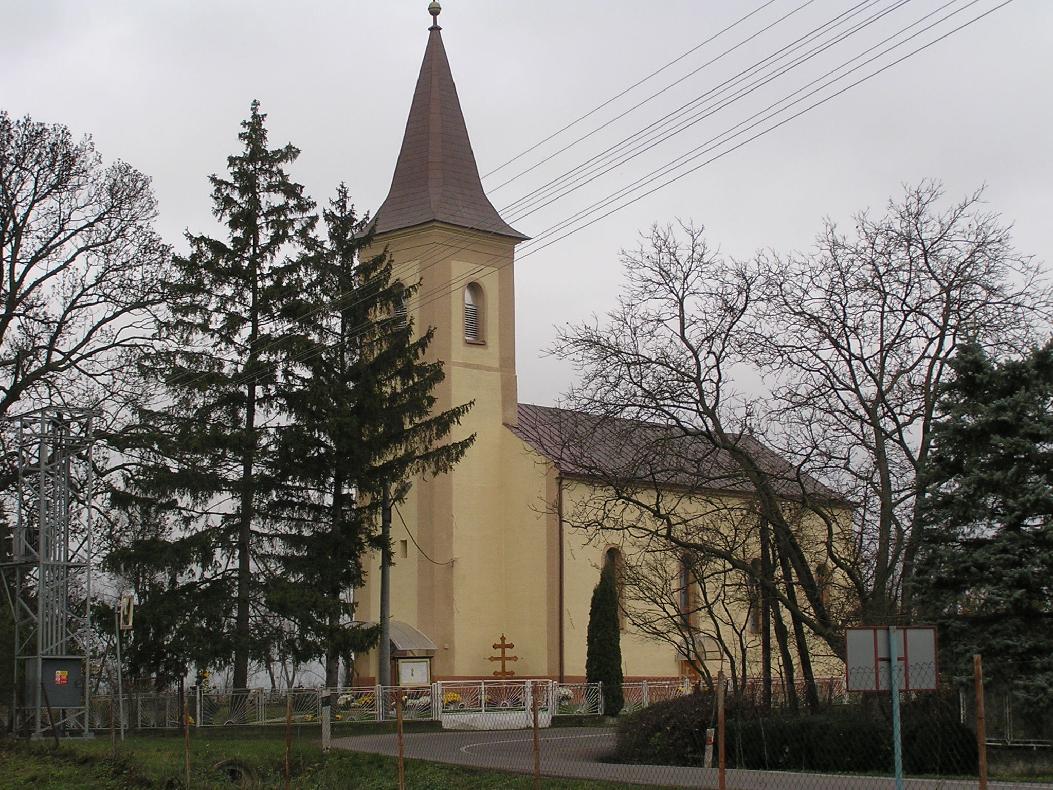 GreekCatholic Church